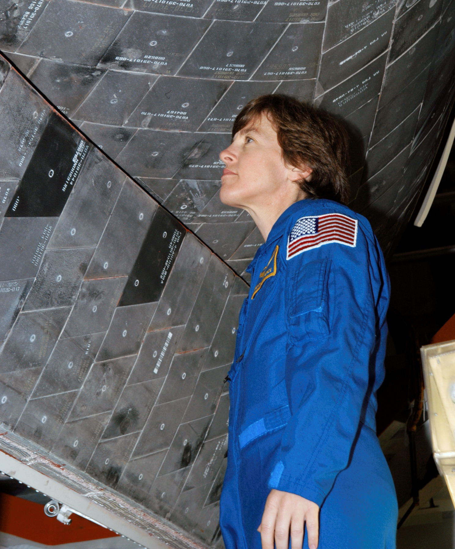 Astronaut Wendy B. Lawrence, STS-114 mission specialist, looks closely at tile underneath the Space Shuttle Atlantis in the Orbiter Processing Facility at Kennedy Space Center (KSC). Lawrence is a new addition to the crew, which is at KSC to take part in hands-on equipment and orbiter familiarization.